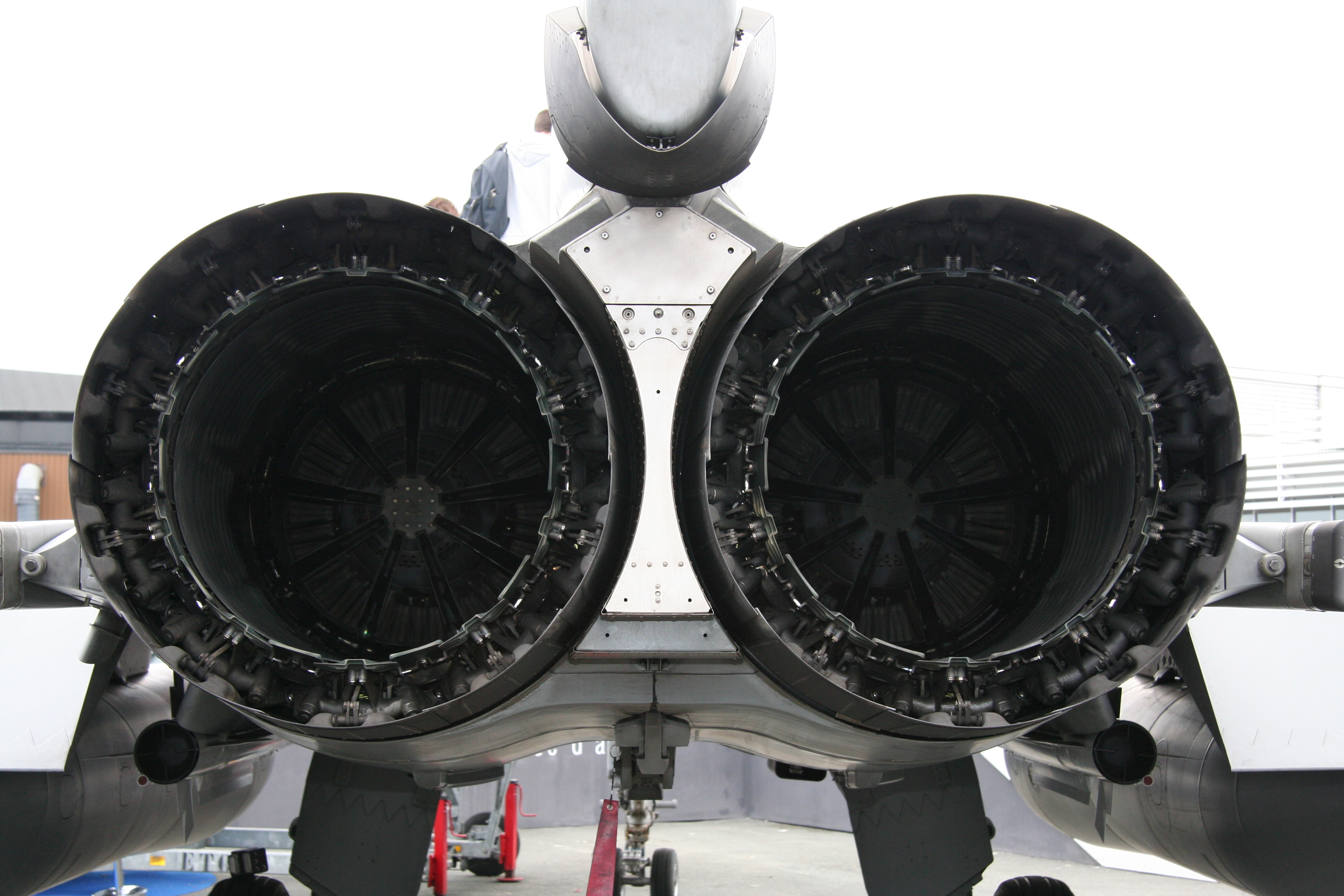 Dassault Rafale - Paris Air Show 2009